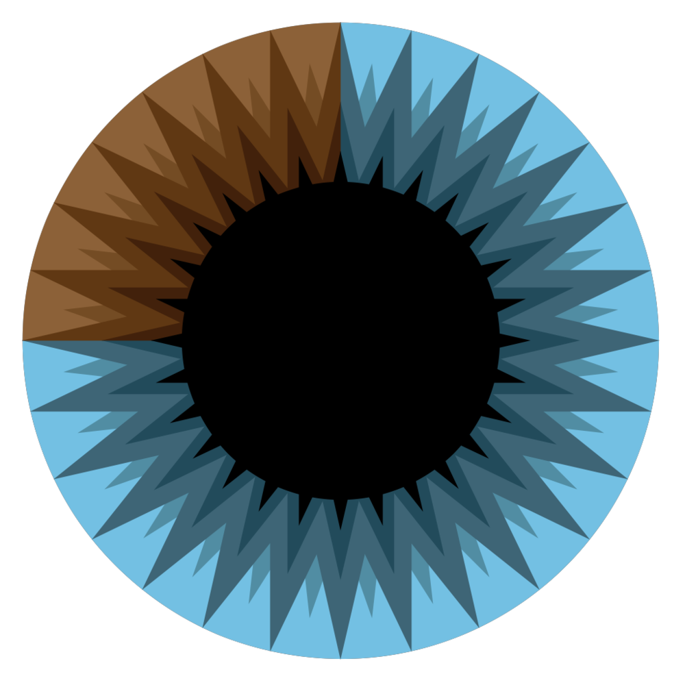 Logo of the mathematics YouTube channel 3Blue1Brown.